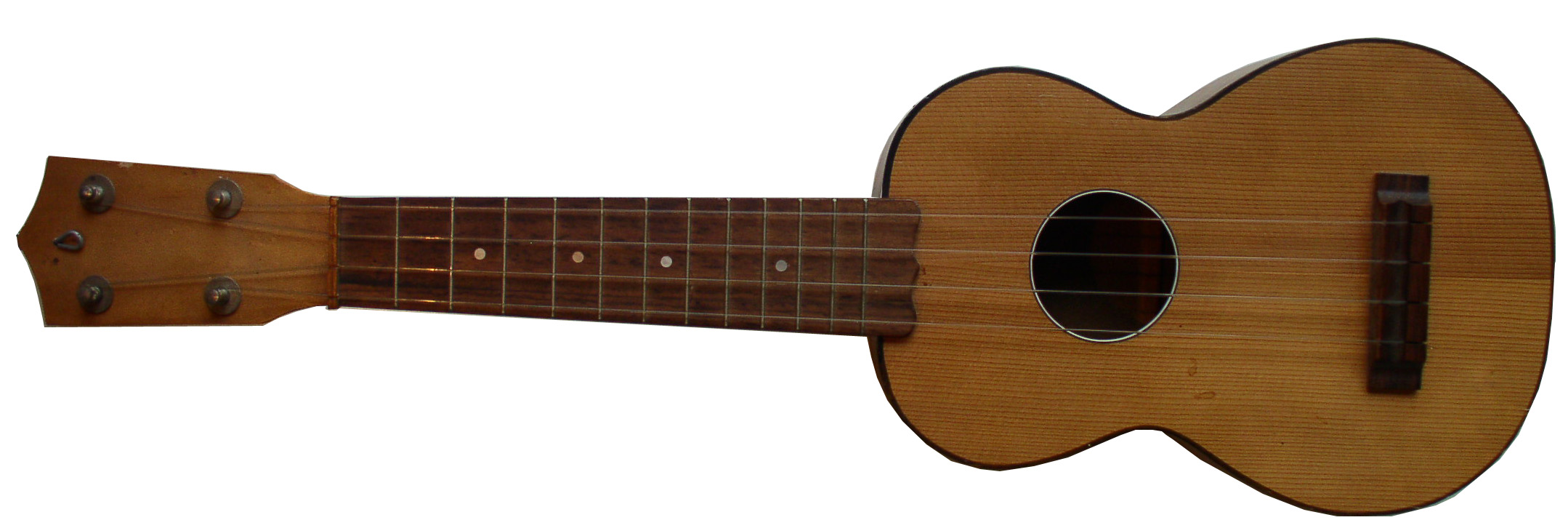 Ukulele own picture